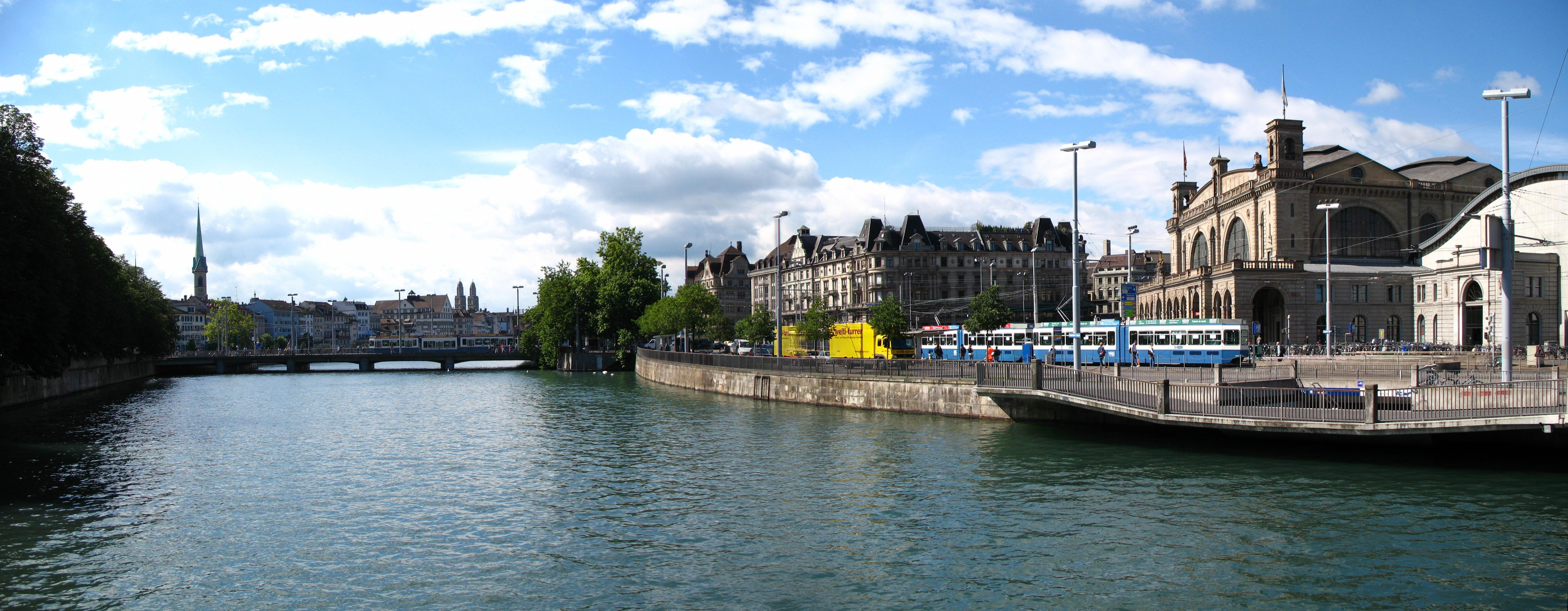 Limmat viewed from Walche-Brücke, Zürich, Switzerland This panoramic image was created with Autostitch (stitched images may differ from reality).